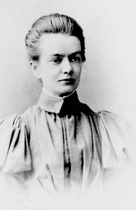 Photo portrait of Matilda Smith (1854-1926), Kew botanical illustrator